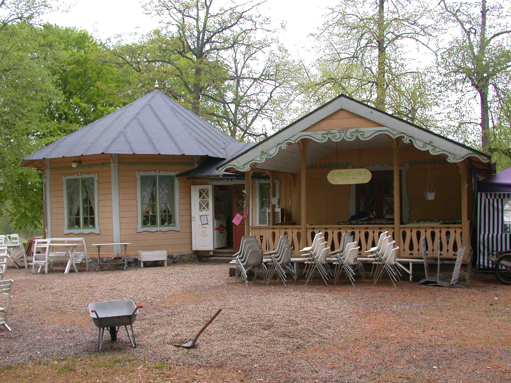 The swiss cottage, Medevi spa, Sweden. Photo by Riggwelter, May 17, 2006.